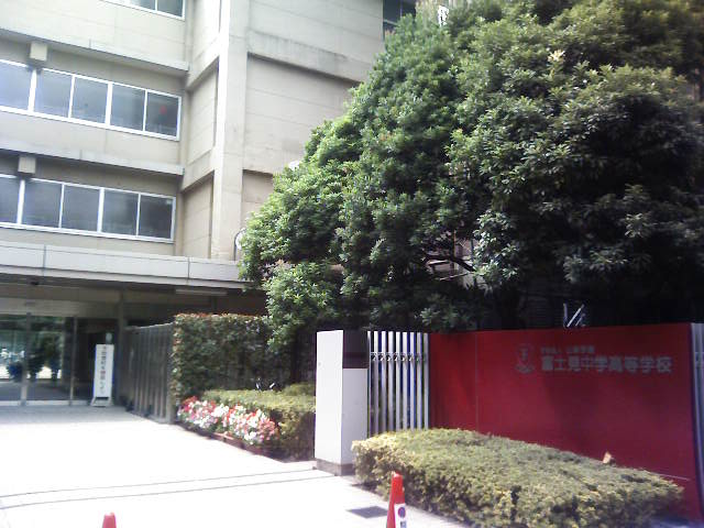 Fujimi Junior & Senior High School, Nerima, Tokyo, Japan